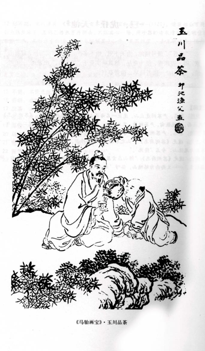 Tasting tea